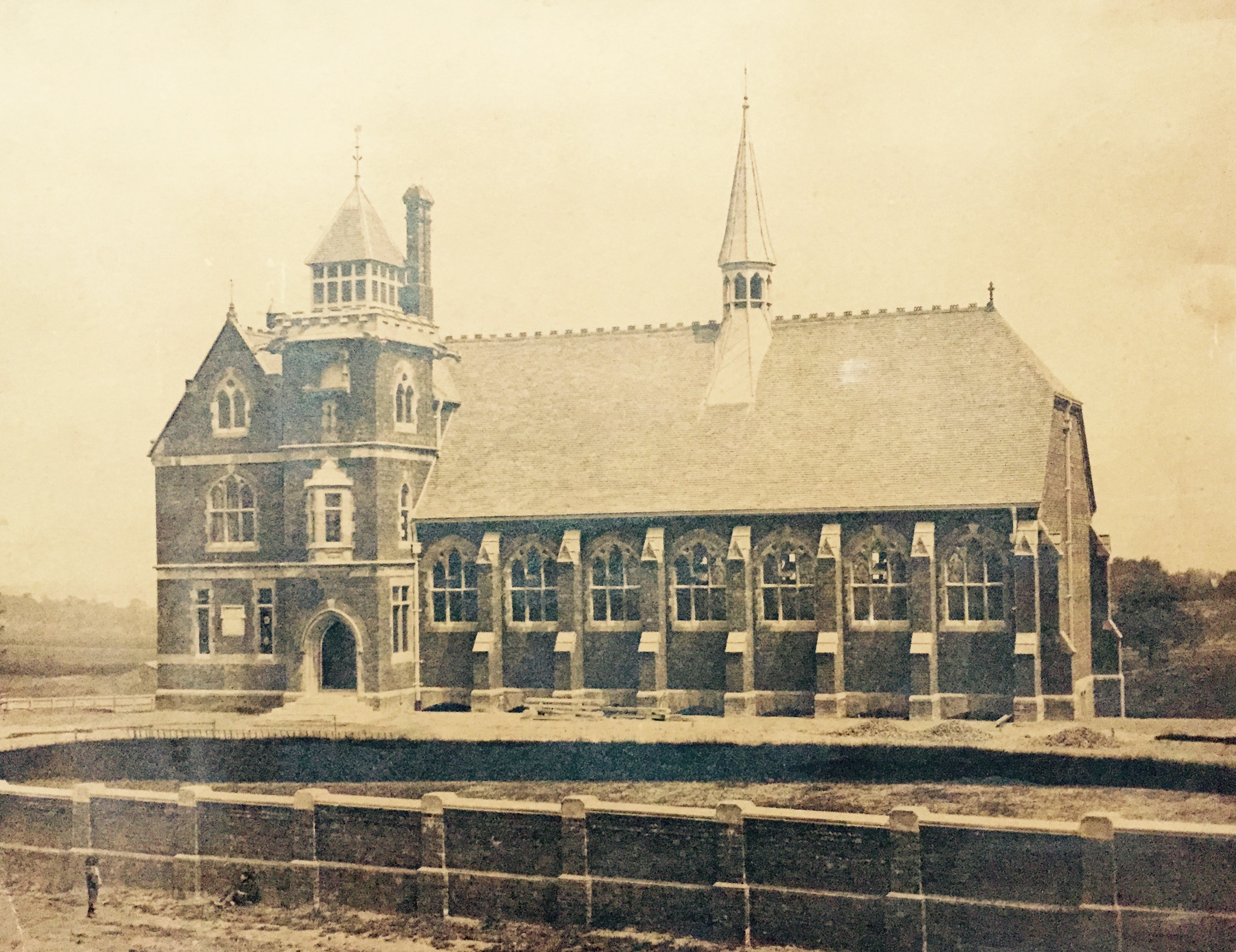 First recorded image of the Skinners School following construction in 1886.